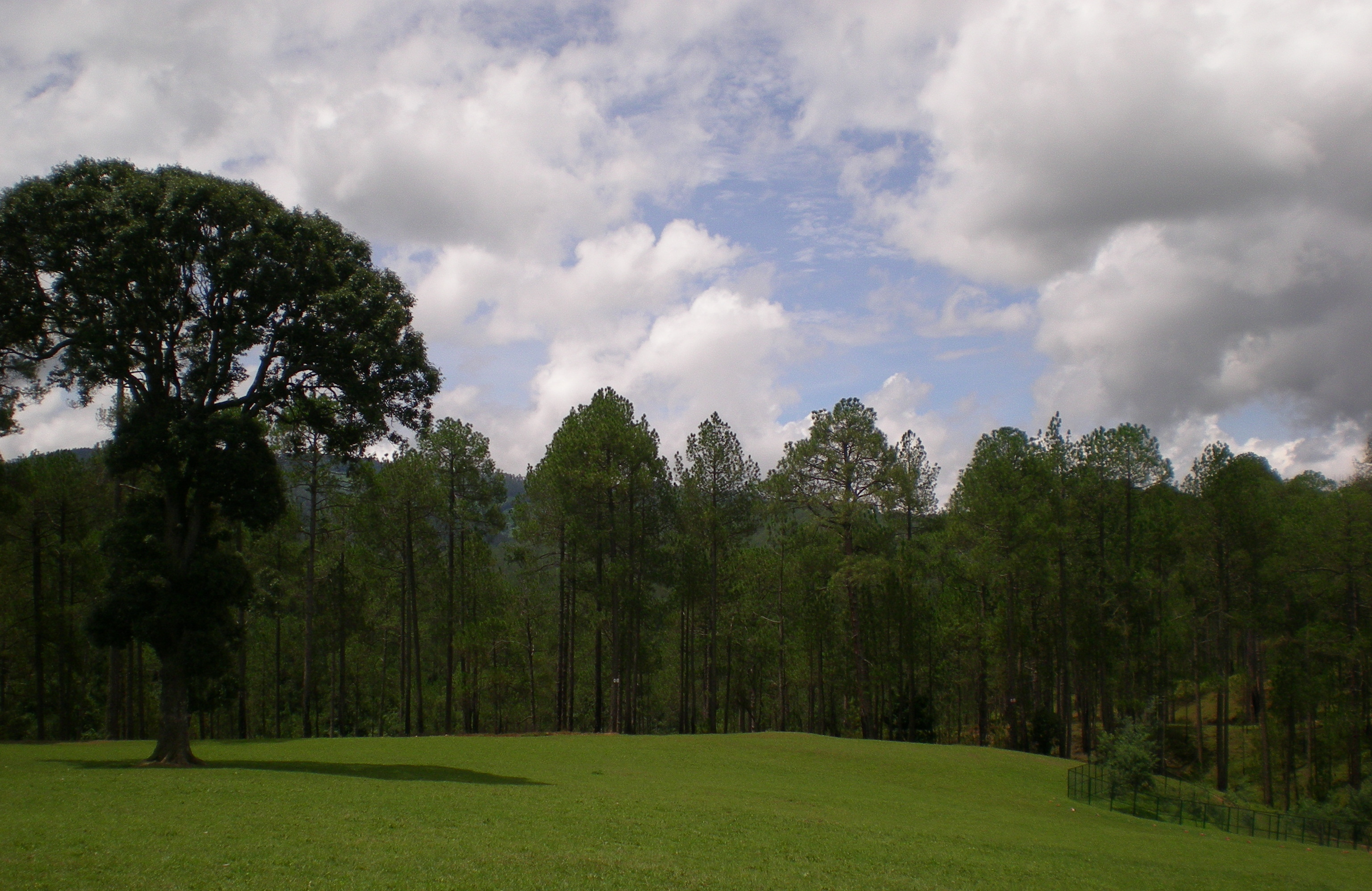 golf ground ranikhet